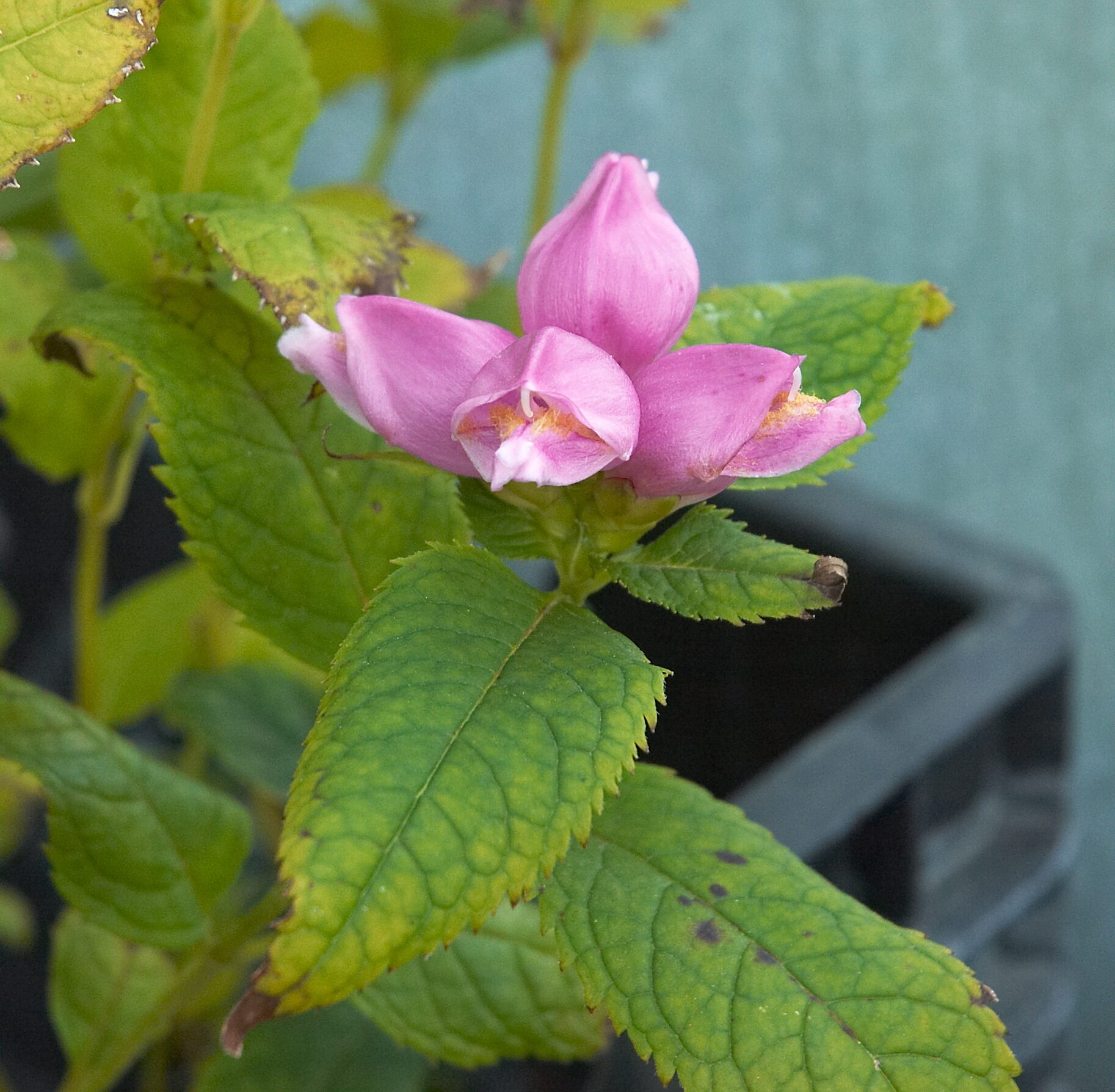 Chelone obliqua. Photo taken in Belgium.